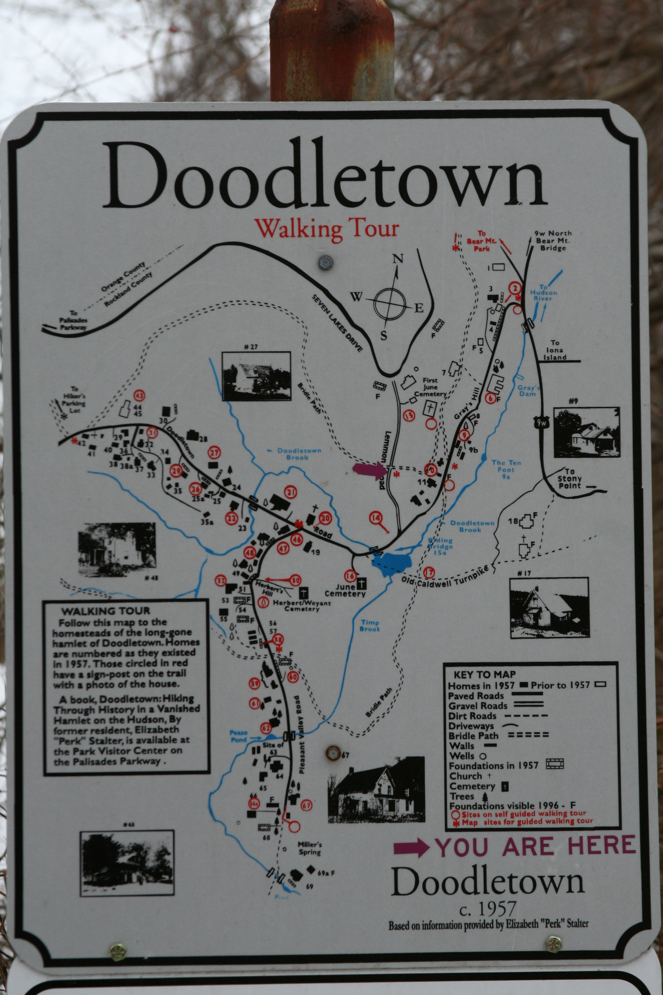 Map of Doodletown, an abandoned town located within Bear Mountain State Park, NY State. Photo taken February 25, 2007 by Jim Harper (Pixel23). Pixel23 15:39, 1 March 2007 (UTC)